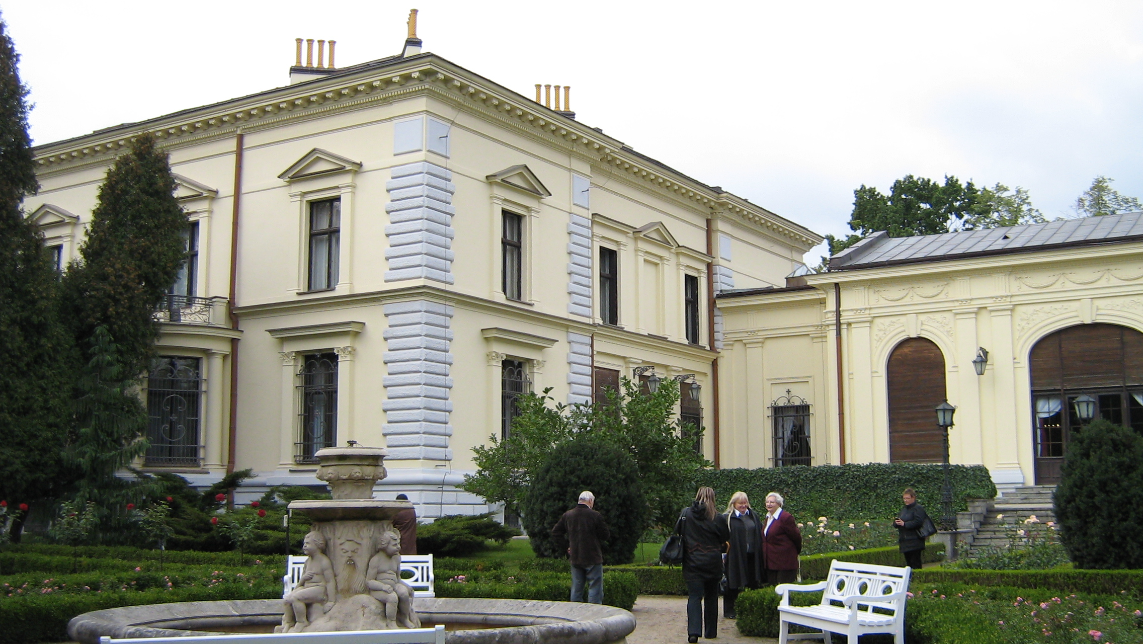 Herbst's Palace in Łódź